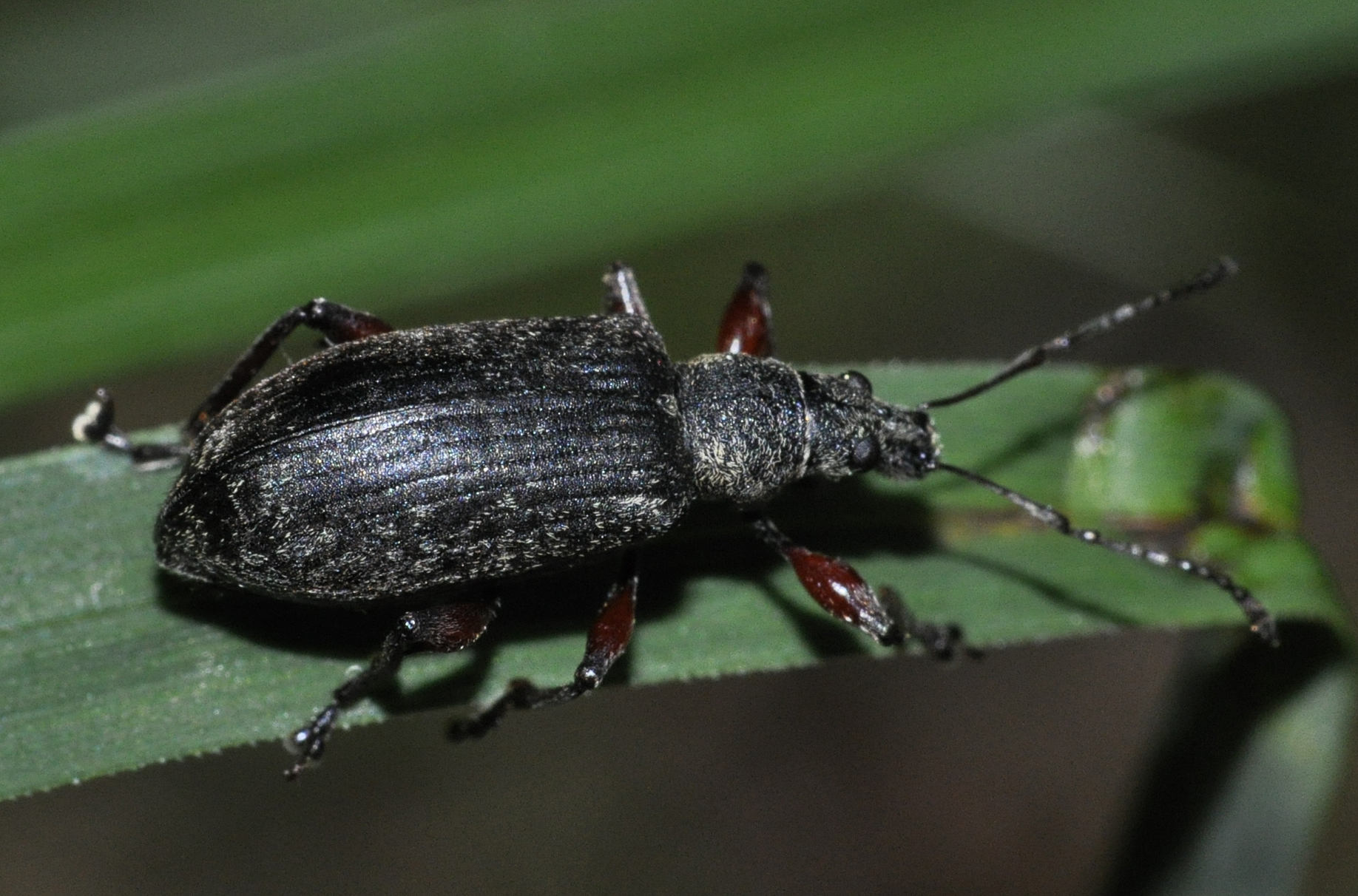 Phyllobius glaucus (Scopoli, 1763). Germany: S Bayern, Landkreis Bad Tölz, Walchensee, Rotwand, 1200 m.